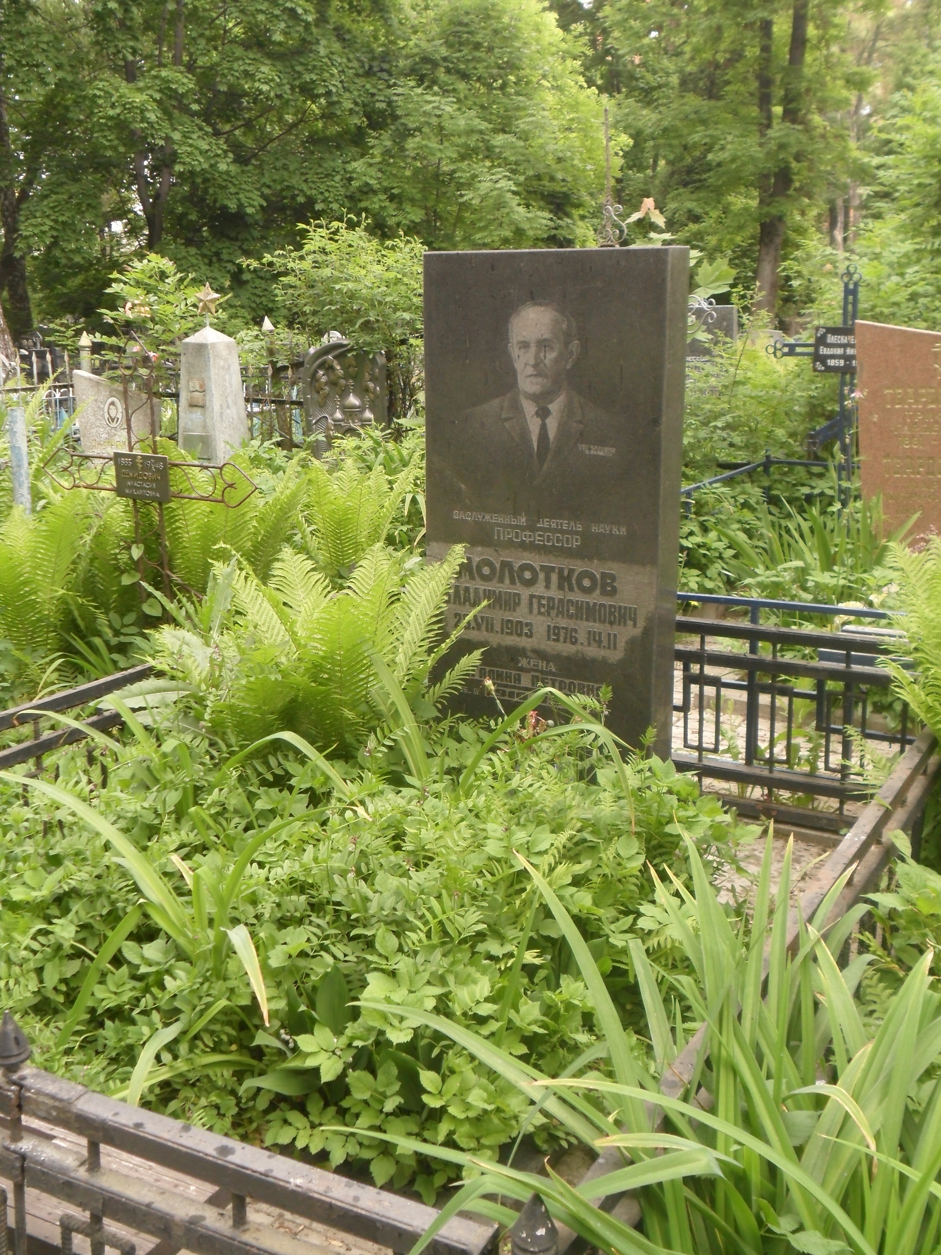 Tomb of the chief coroner of the Western and 3rd Belorussian Fronts of the Great Patriotic War, Professor Vladimir Molotkov on the Fraternal Cemetery in Smolensk.